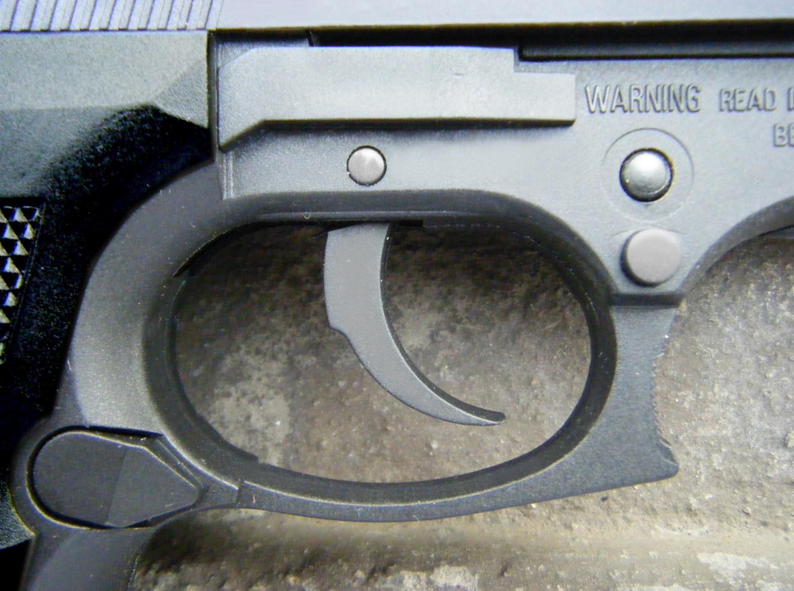 Trigger Double Action